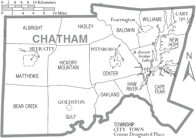 Map of Chatham County, North Carolina, United States with township and municipal boundaries